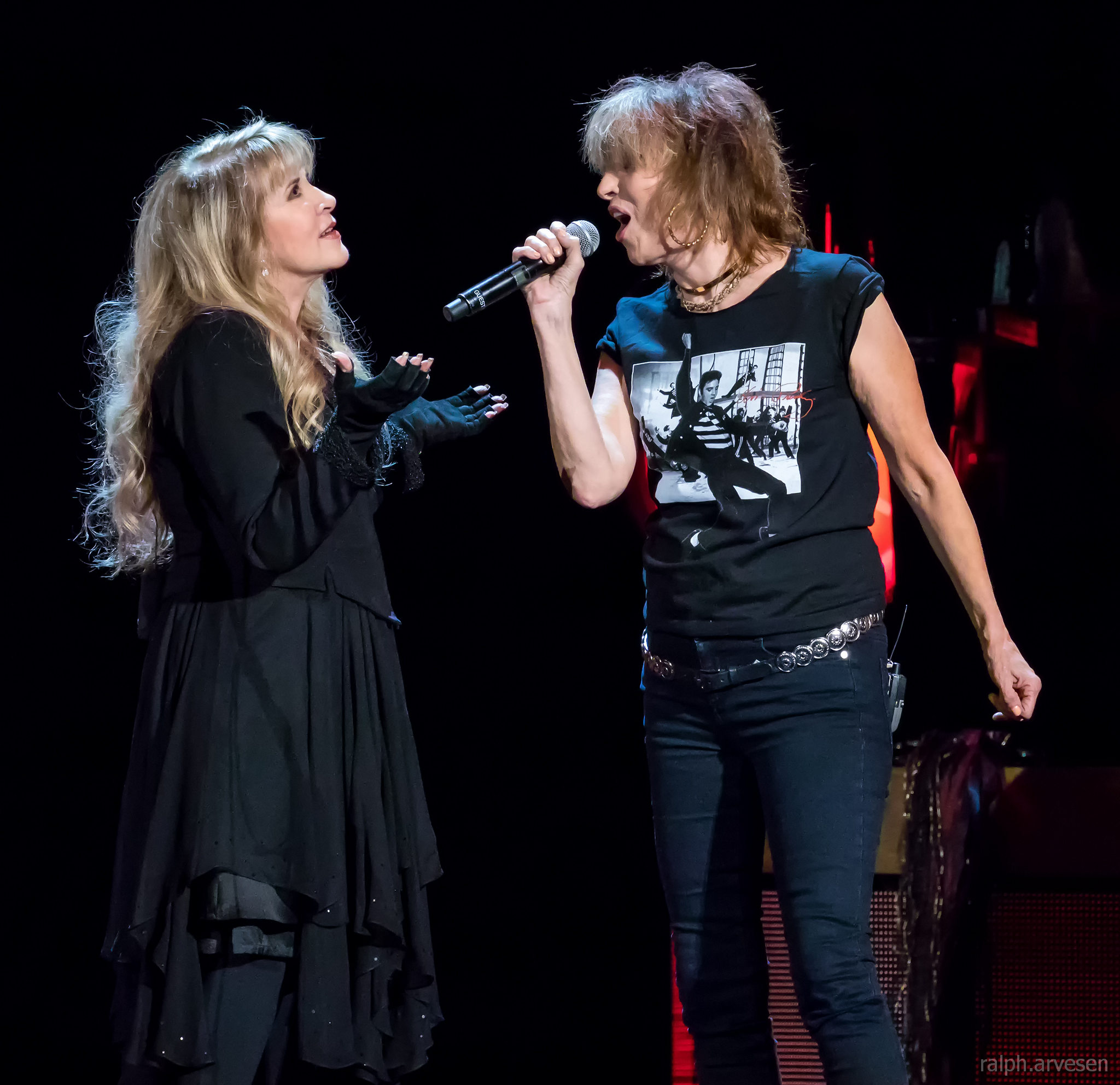 Stevie Nicks performing (with Chrissie Hynde) at the Frank Erwin Center in Austin, Texas on her 24 Karat Gold Tour.